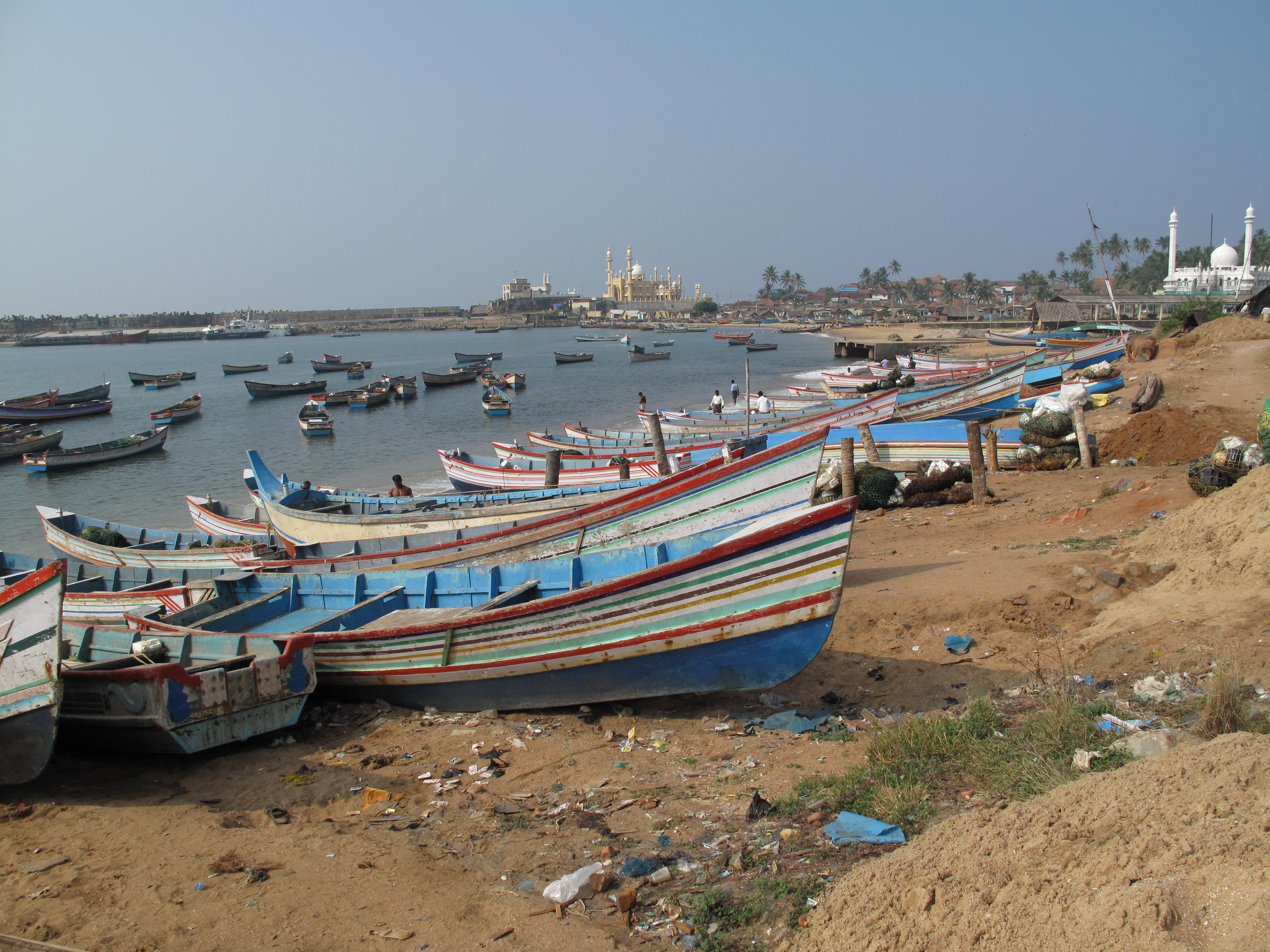 Vizhinjam, Port